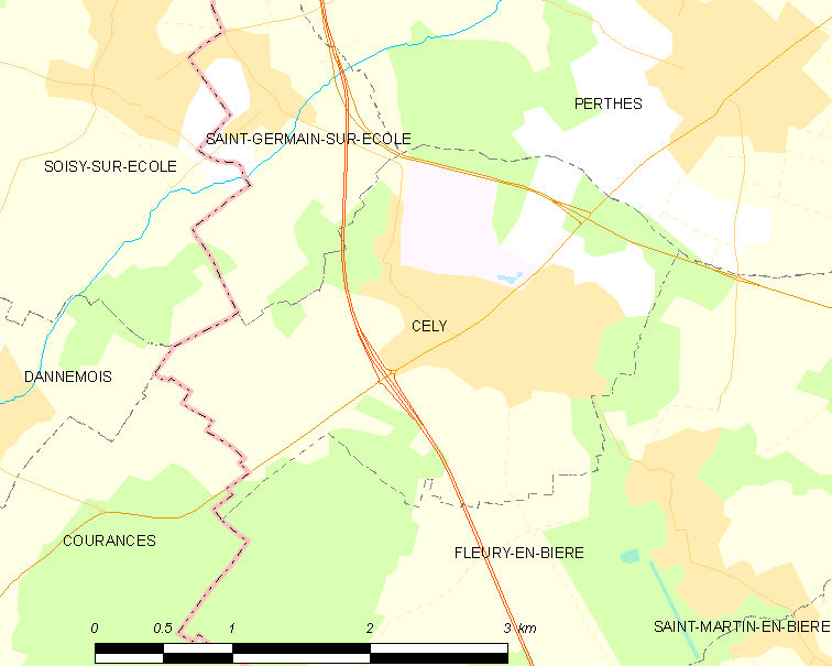 Map of French municipality Cély